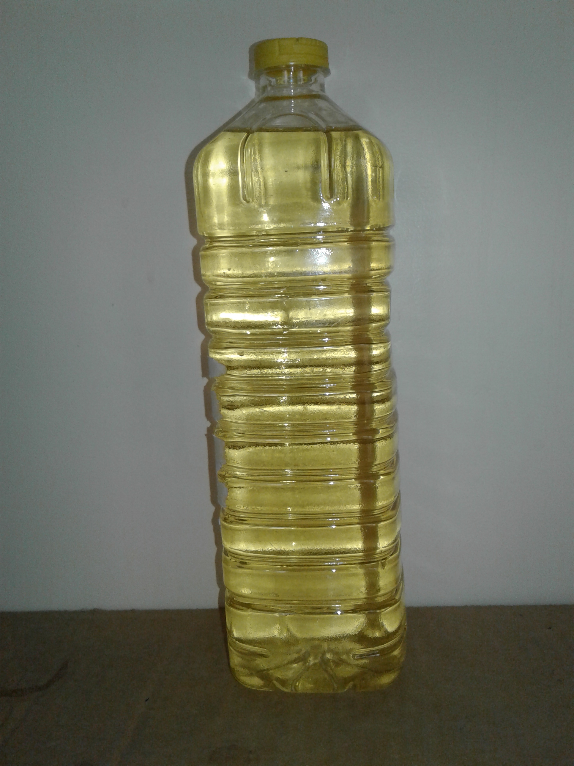 قنينة بلاستيكيّة تحوي زيت بذور نبات دوَّار الشمس.